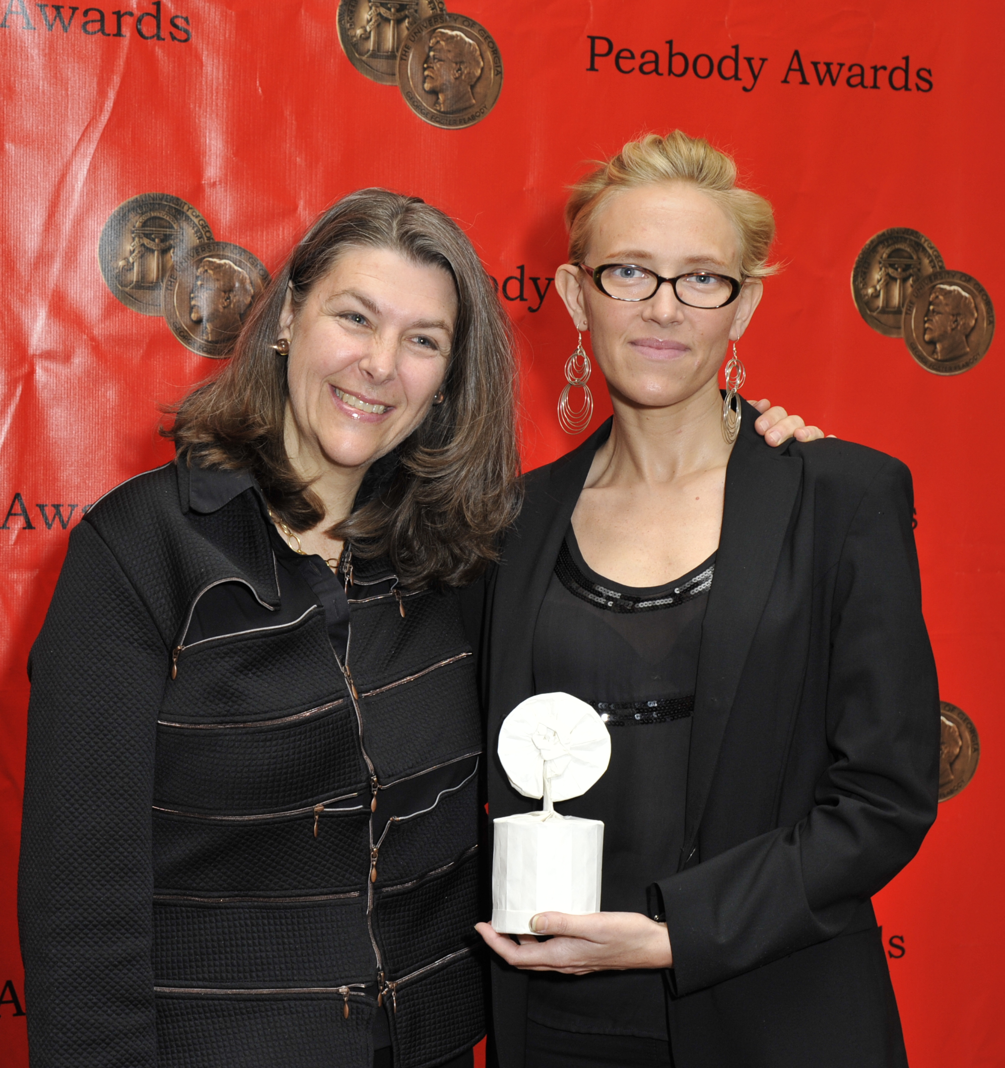 Sally Rosenthal and Vanessa Gould 69th Annual Peabody Awards Luncheon Waldorf=Astoria Hotel New York, NY USA May 17, 2010